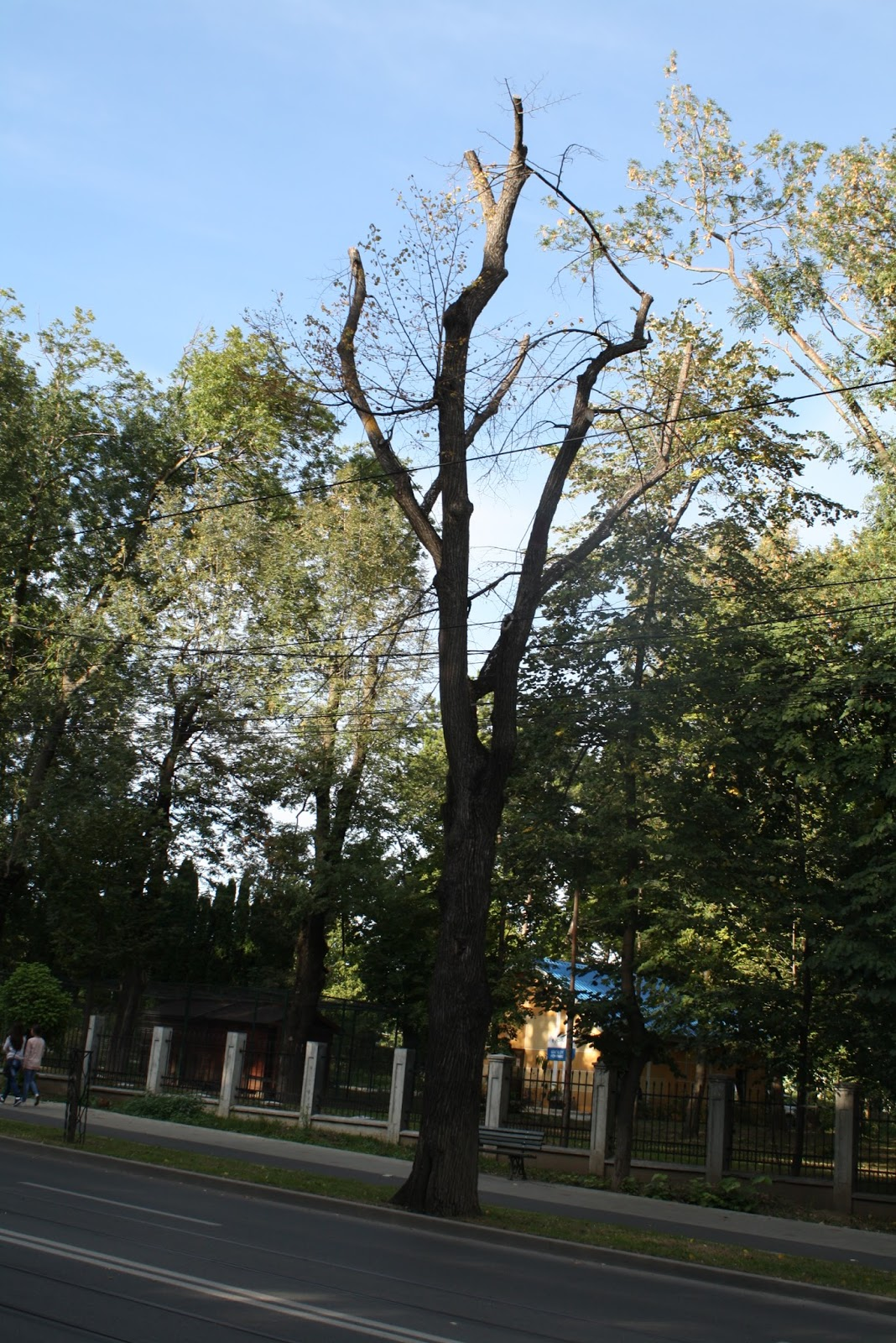 Example of tree topping, Iasi, Romania